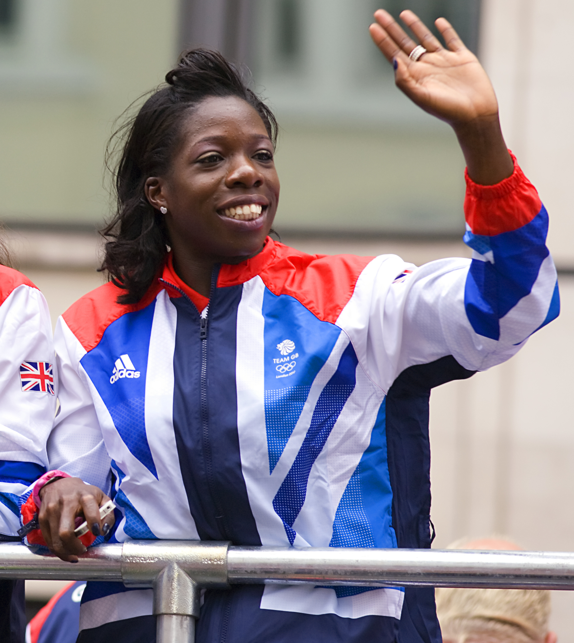 London 2012 Olympic & Paralympic Games Victory Parade, 10th September